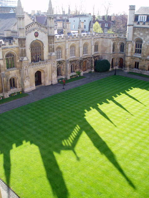 Corpus Christi College, Cambridge New Court, built by William Wilkins (of National Gallery fame) in 1825. The Chapel is on the left, with a bit of the famous Parker Library on the right. Photo taken from a third-floor window similar to the one seen in the top right; this floor was not designed by Wilkins but was plonked on top of the battlements in the 1920s, long before listed building status came along, thereby upsetting the careful architectural harmony of the court.